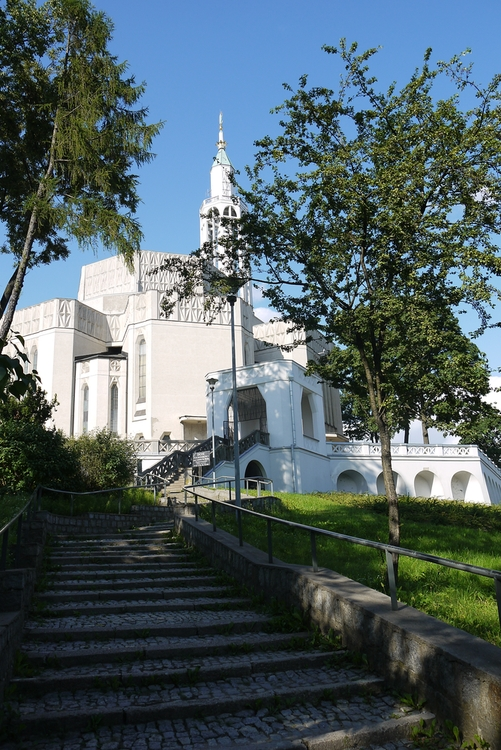 Białystok (Poland). Outside stairs of the Church of St. Roch